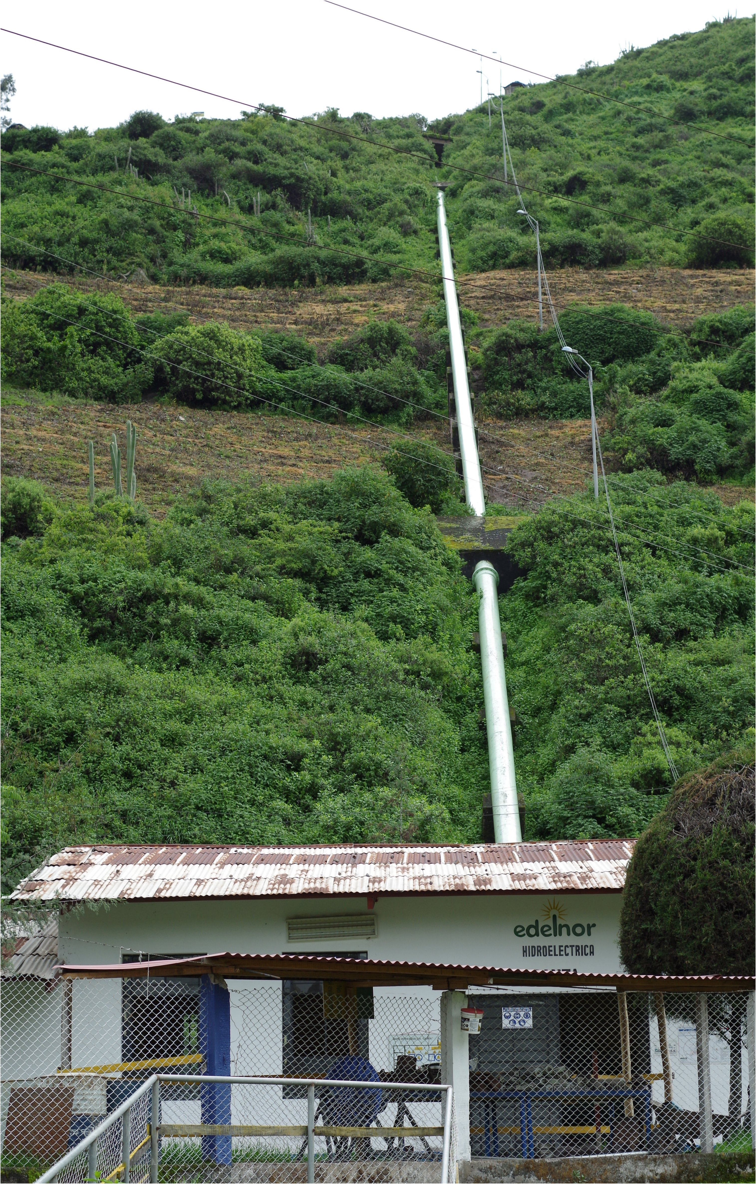 Electricity Plant Edelnor Huanamayo/Canta, Peru